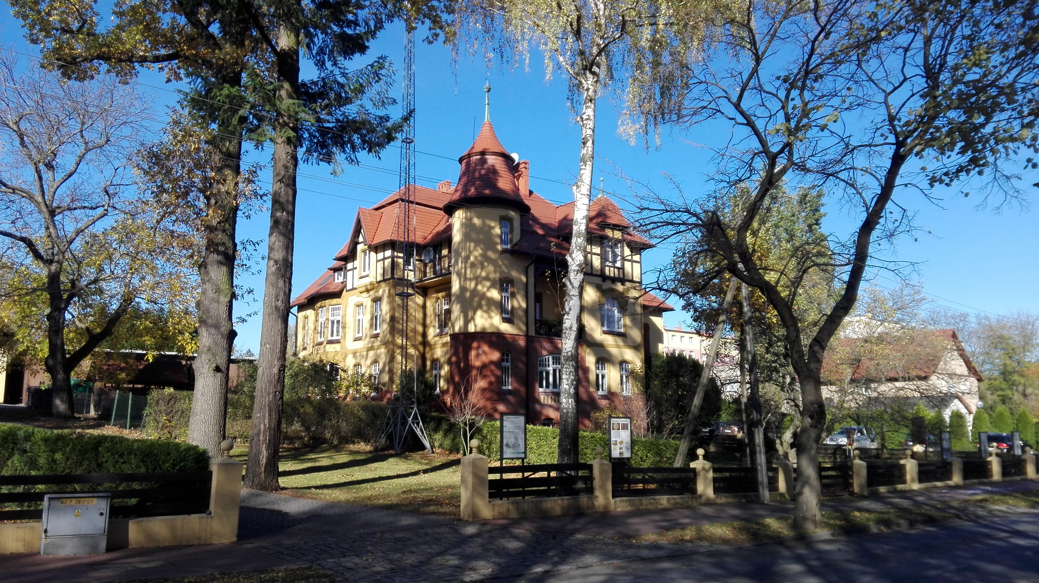 34 Jarosława Dąbrowskiego Street in Prudnik